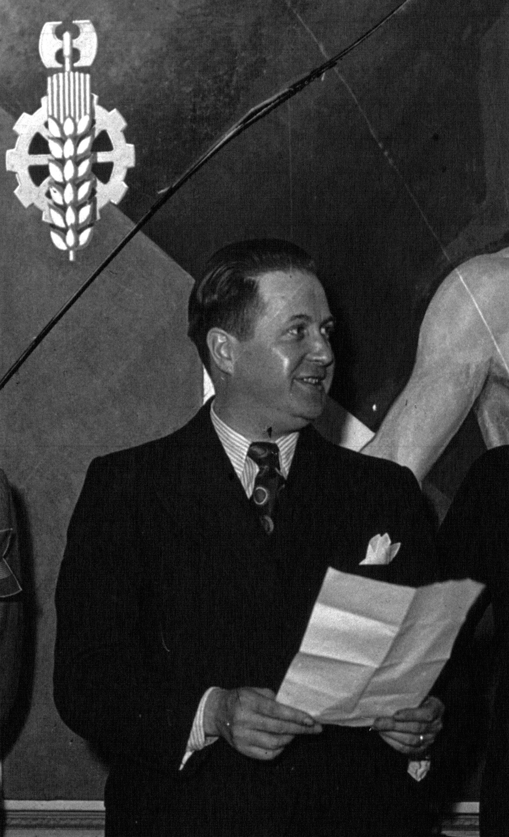 Marcel Bucard (cropped version of Interview de M. Bucard, chef des Francistes).